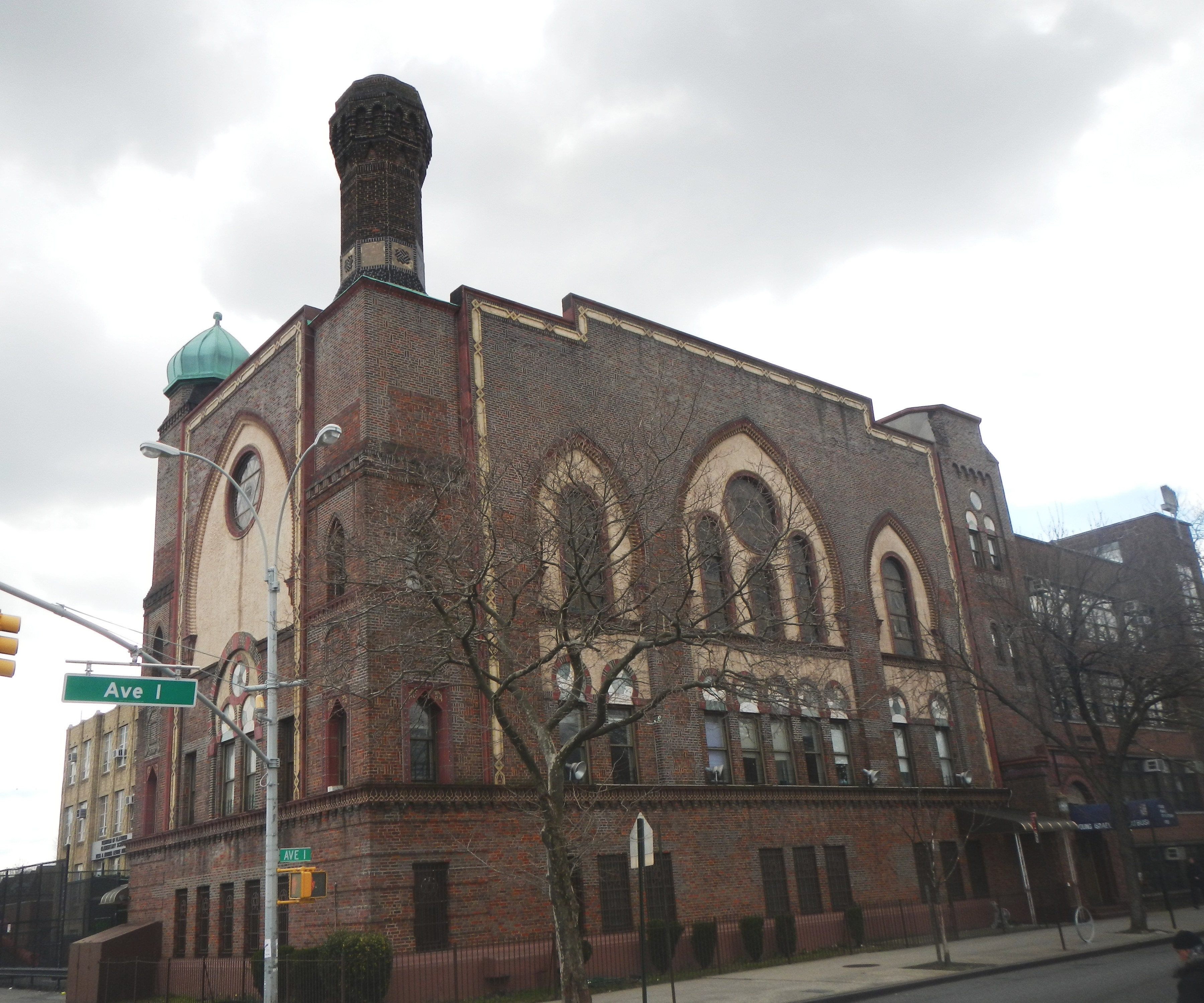 Looking southwest across Coney Island Avenue and Avenue I on a cloudy day.